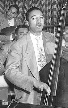 Ray Brown, an American jazz double-bassist